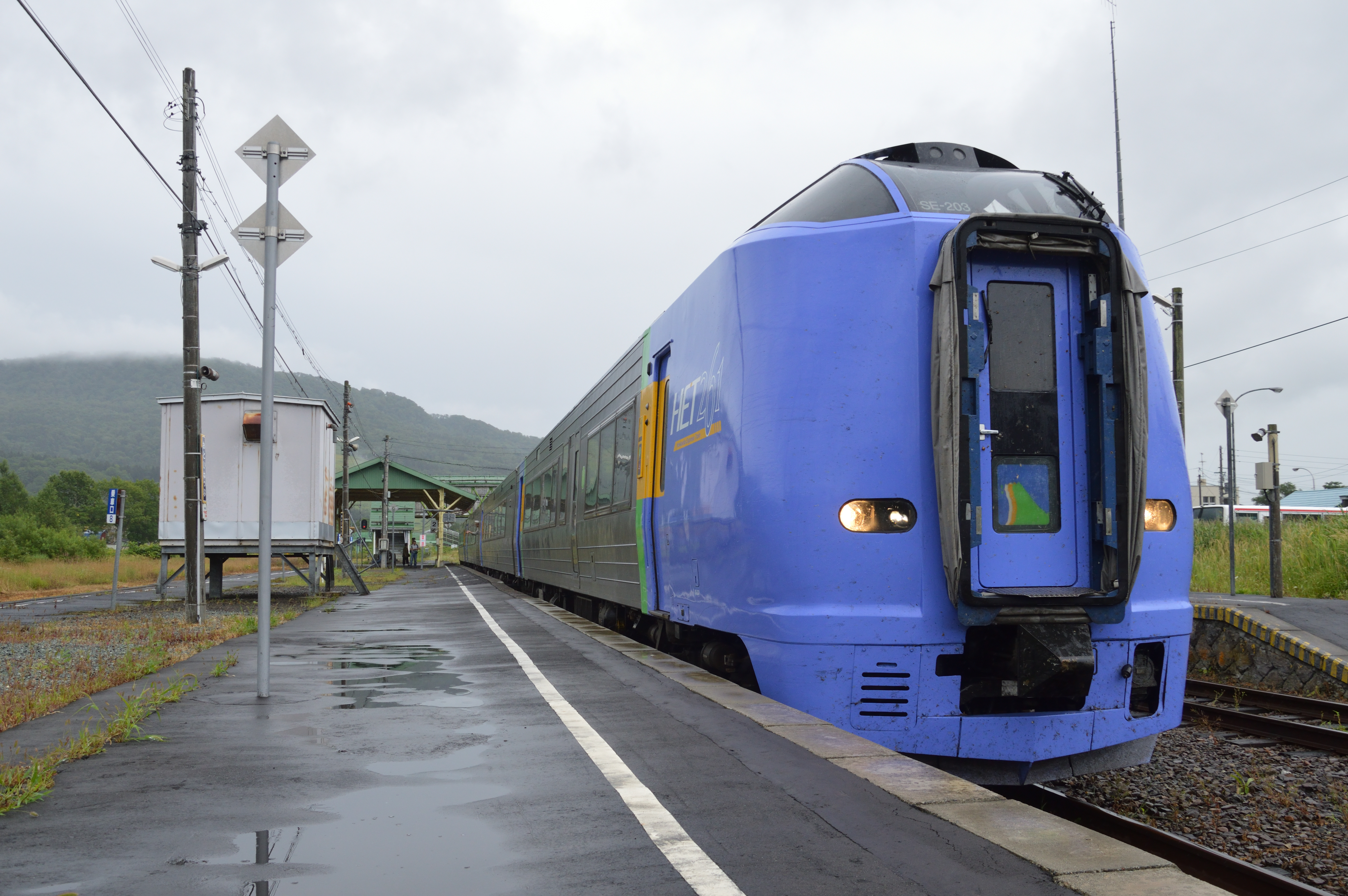 JR Hokkaido KiHa 261 series DMU set SE-203 at Otoineppu Station on the Soya Main Line on the Sarobetsu 1 service